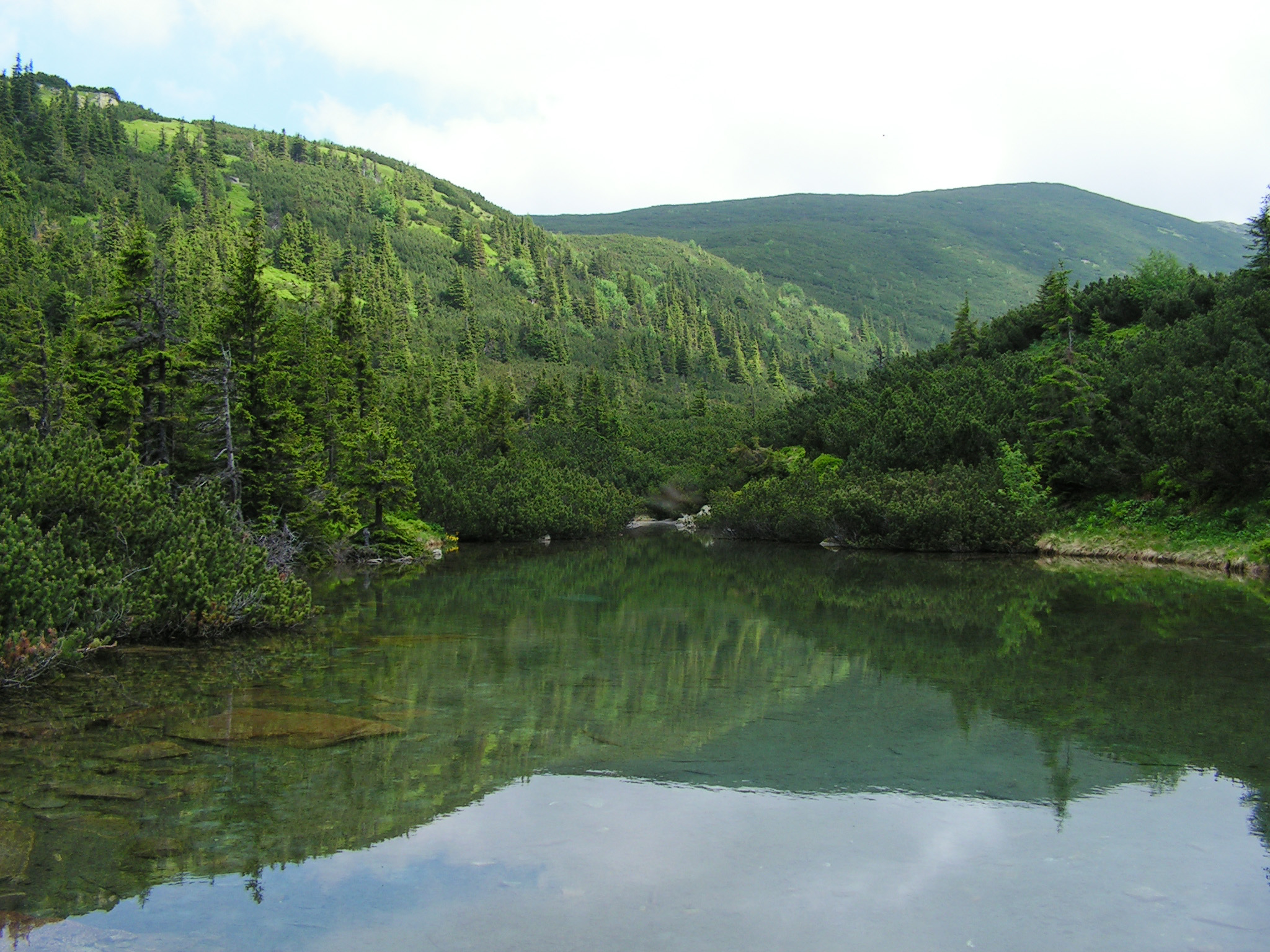 Biele Bobrovecké pliesko under sedlo Pálenica.